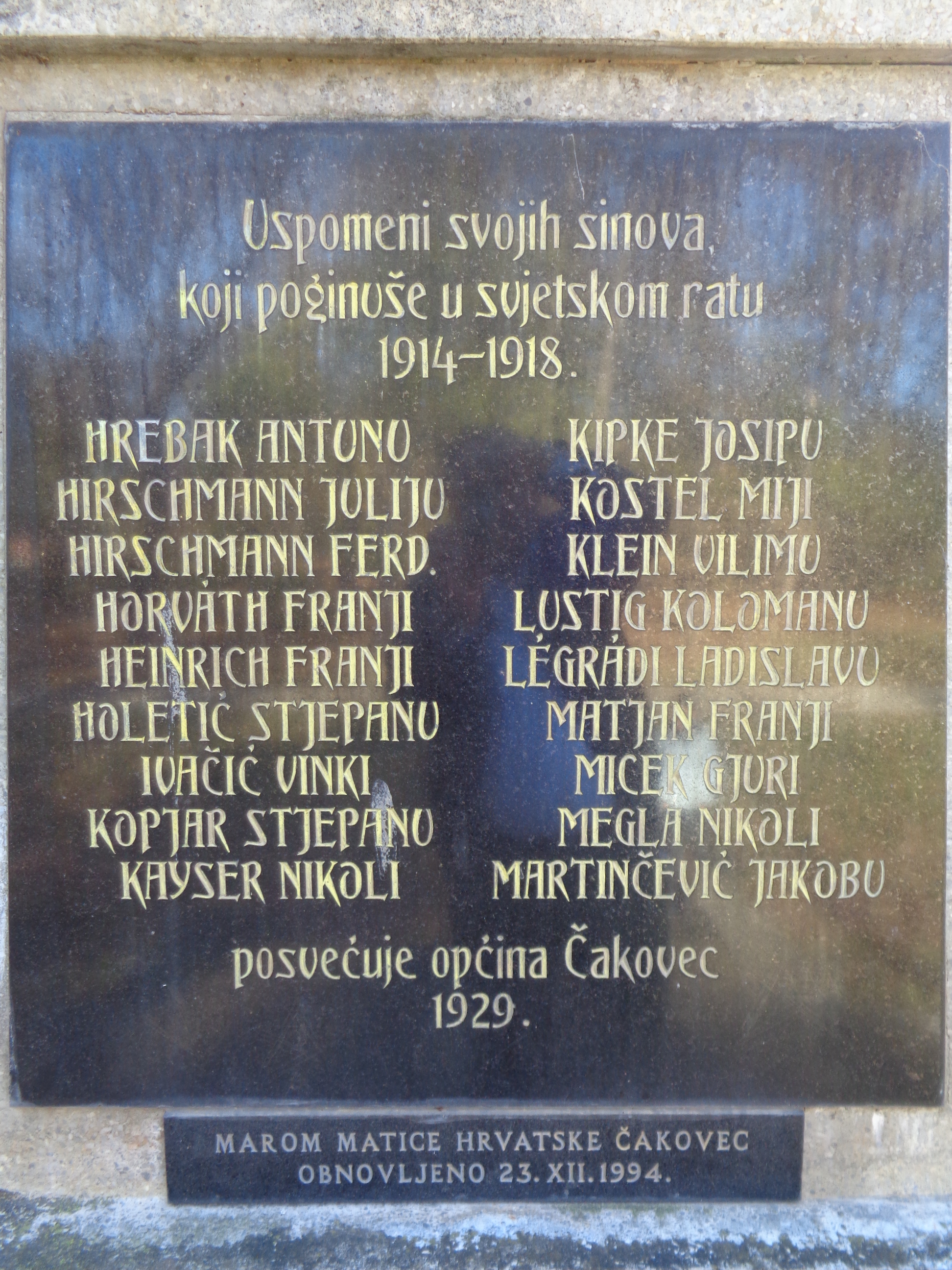 Zrinski park, Čakovec (Croatia), Memorial to fallen soldiers in World War I - list of soldiers' names (2)